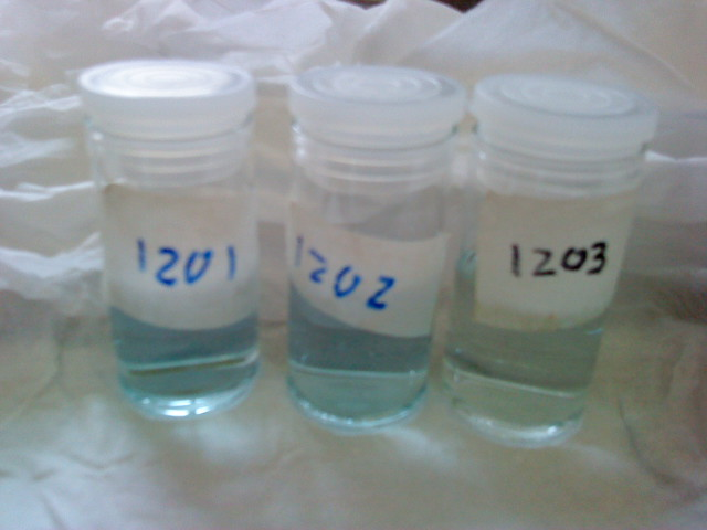 Phycocyanin pigment extracted from Microcystis Aeruginosa. The pigments light blue colour is evident.